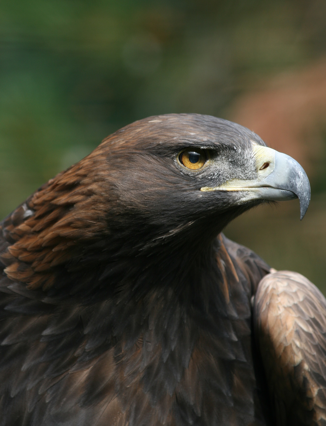 Description: The Golden Eagle Aquila chrysaetos is one of the best known birds of prey in the Northern Hemisphere. Like all eagles, it belongs to the family Accipitridae